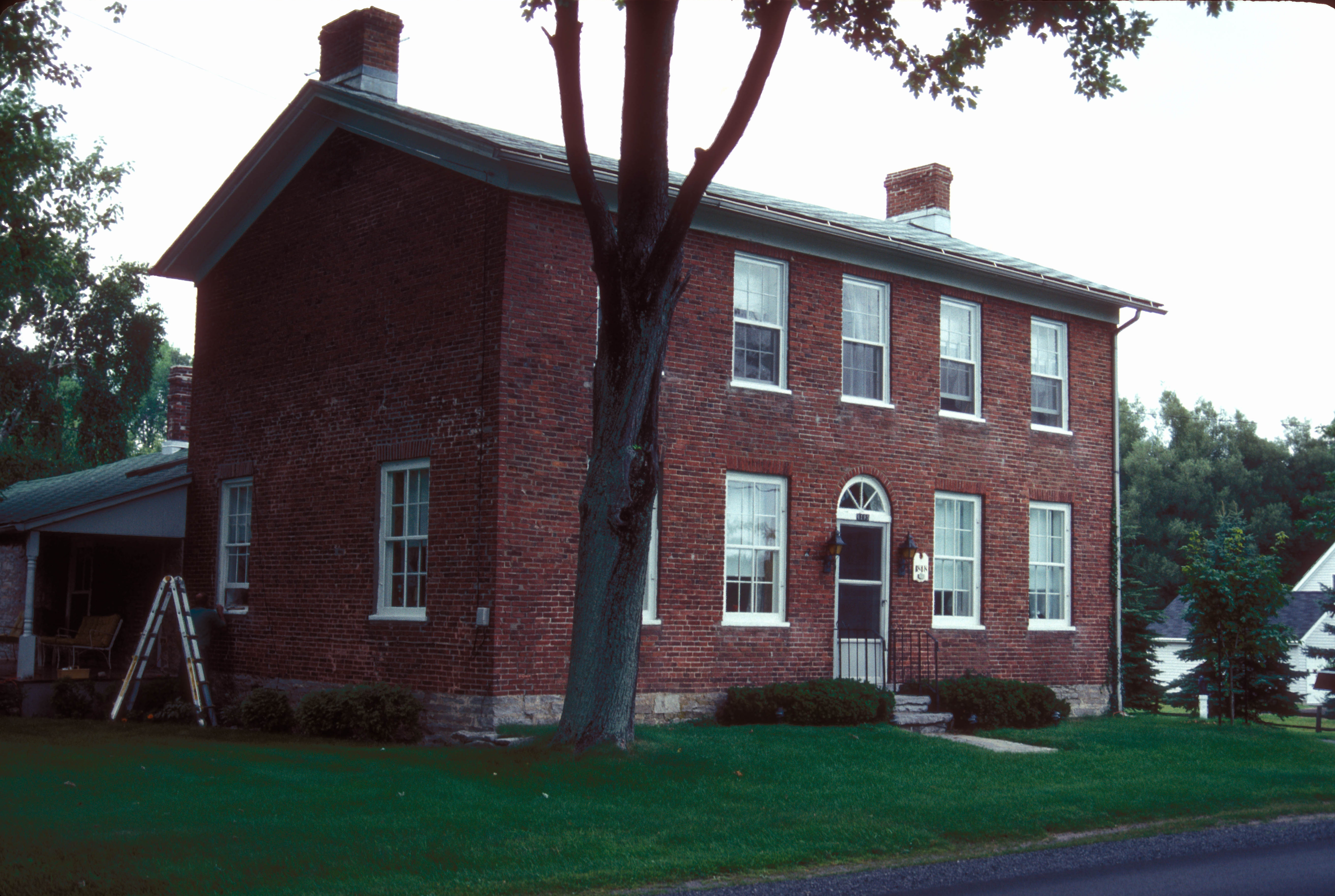 Samuel Guthrie, DISCOVERER OF CHLOROFORM IN 1831, INVENTED PERCUSSION CAPS